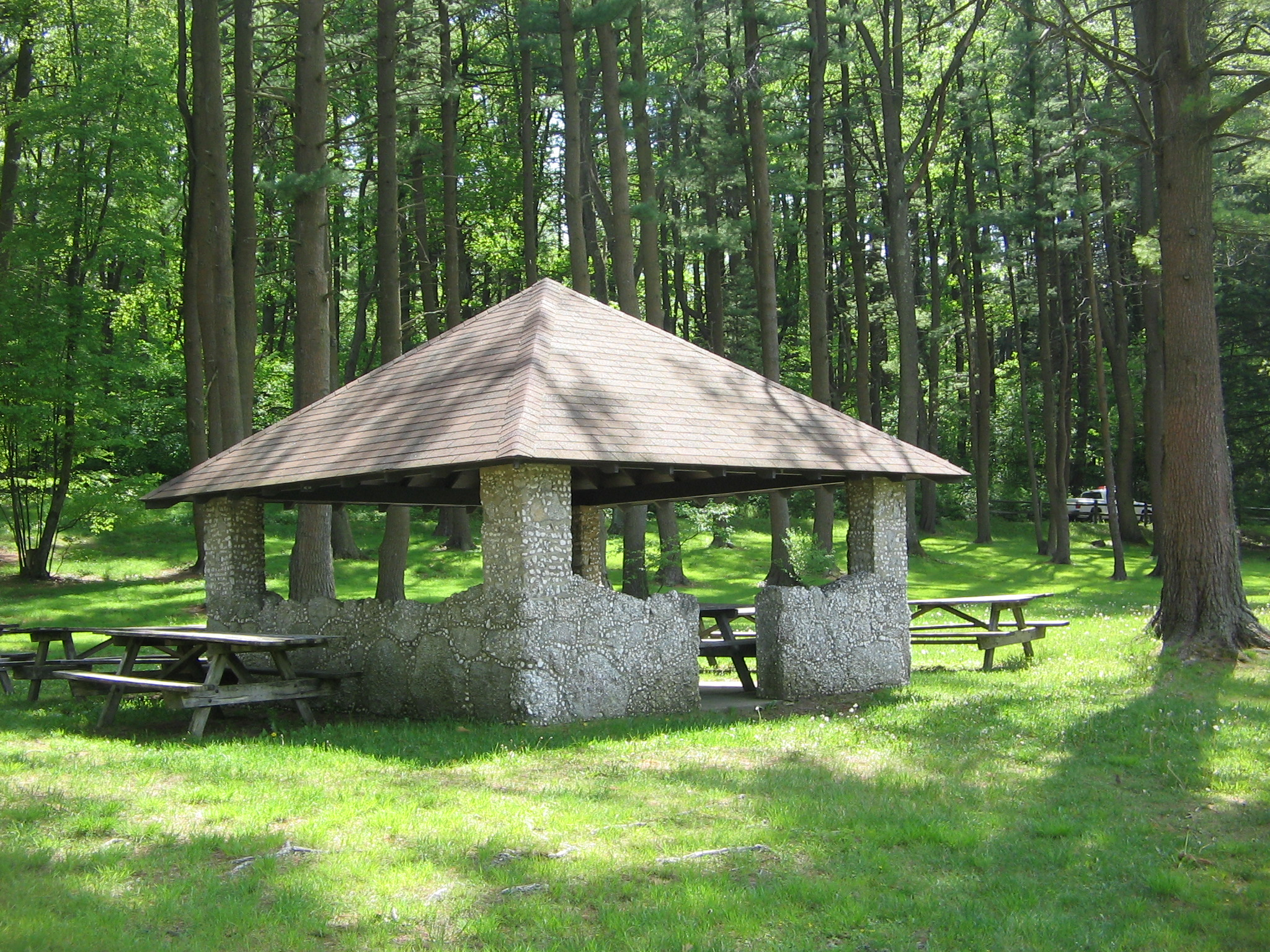 CCC-built former Pump House, now Picnic Shelter (NRHP 102-40, see here) at Black Moshannon State Park, near Phillipsburg, Rush Township, Centre County, Pennsylvania, USA.